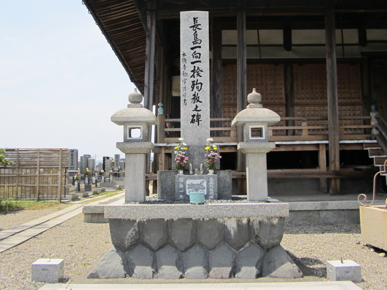 Sieges of Nagashima Martyrs Memorial at Ganshō-ji in Kuwana, Mie.